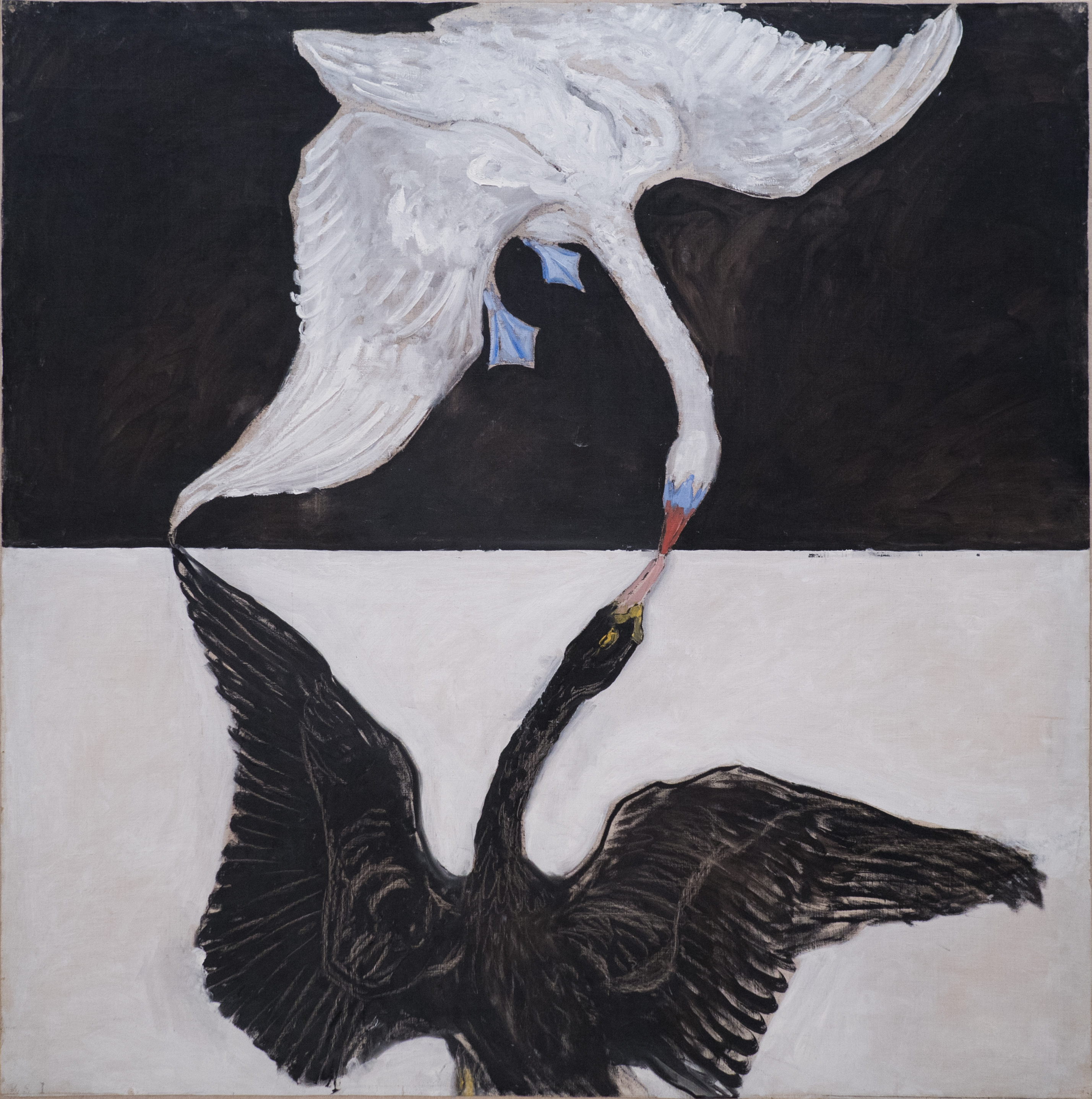 Hilma af Klint - Group IX/SUW, The Swan, No. 1, 1915